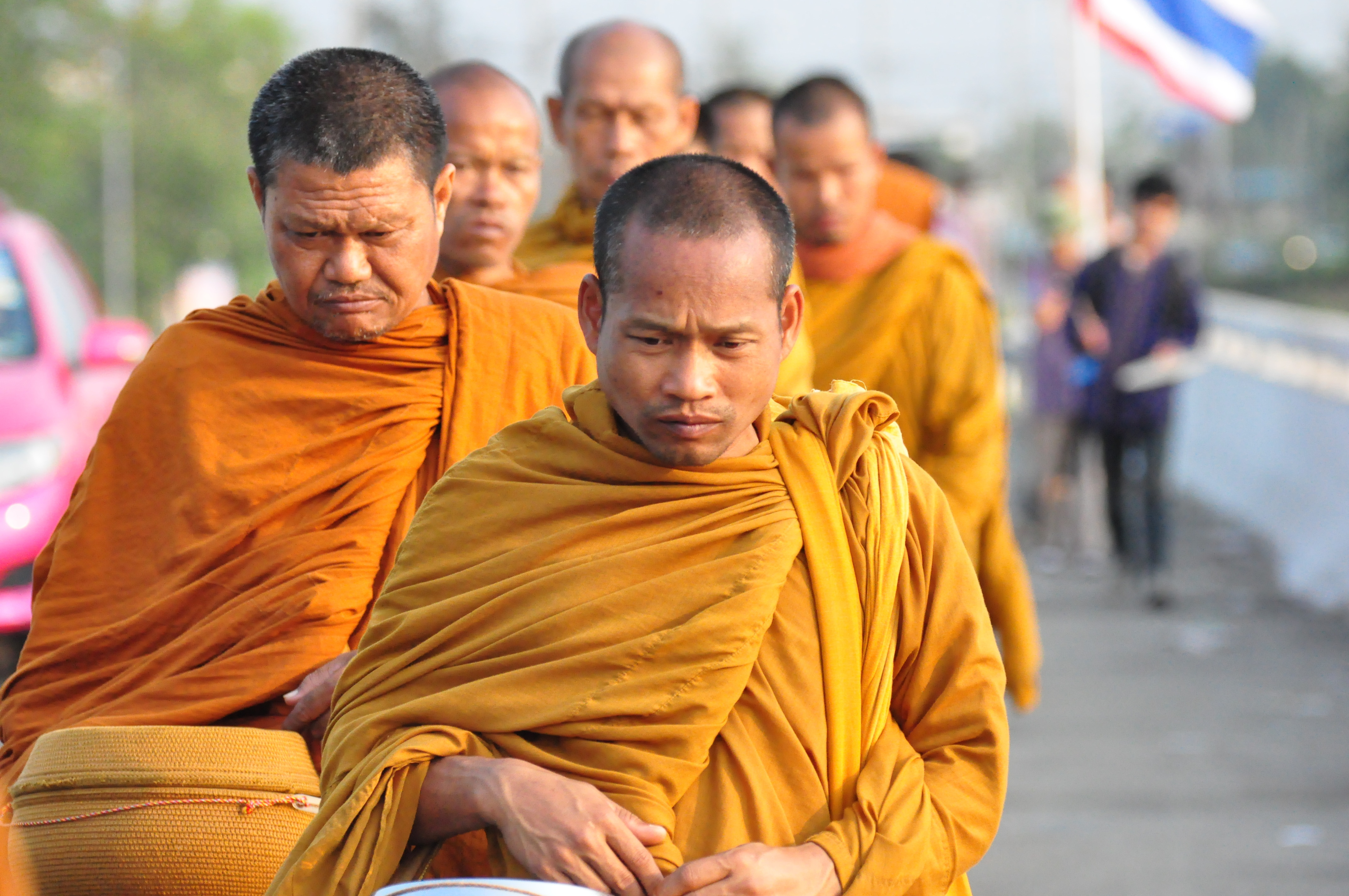 Theravada Buddhism in Thailand